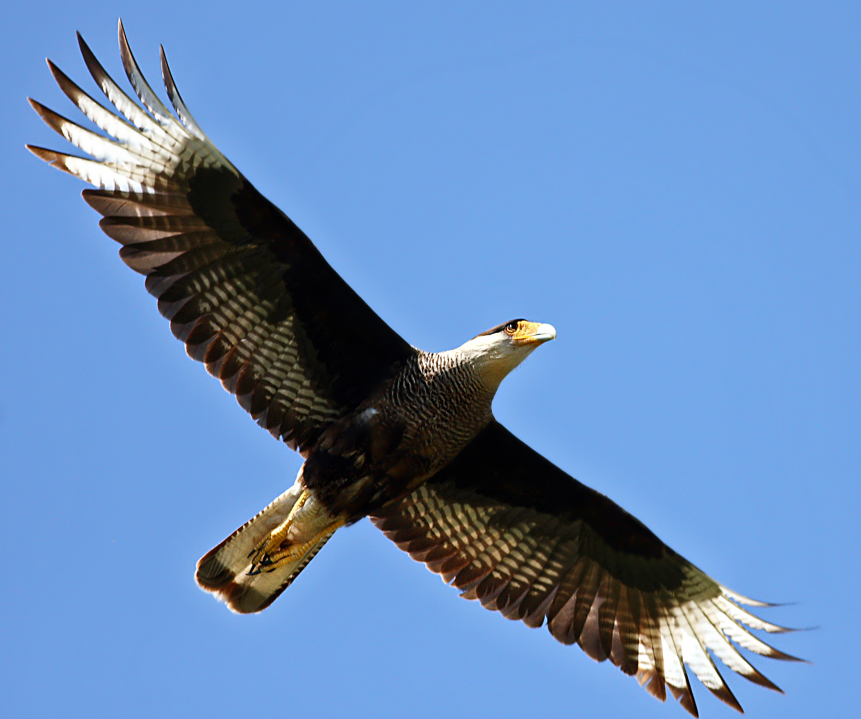 Caracara plancus (Carancho), Buenos Aires, Argentina. A typical bird of prey from the Argentinian plains. The "light windows" can be seen in the wings in the large image. 40D + 400 F5.6L.